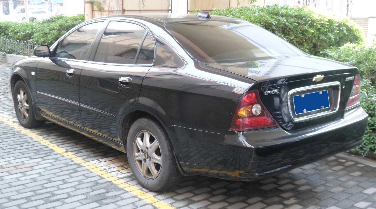 Chevrolet Epica V200 photographed in Shanghai, China.